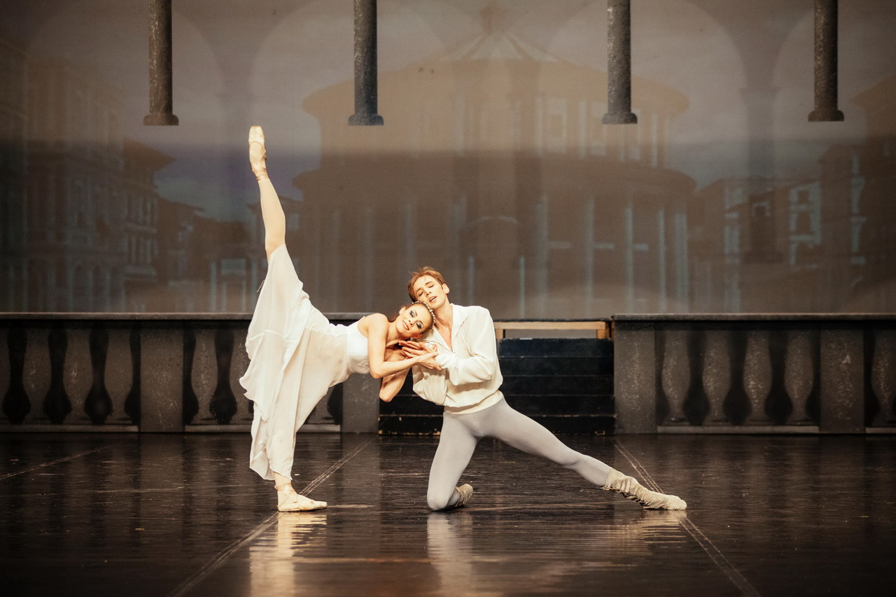 "Romeo and Juliet ", a ballet by Sergei Prokofiev based on William Shakespeare's play Romeo and Juliet; choreography and directing Konstantin Kostjukov; Ballet of the Serbian National Theatre, Novi Sad, 2013/14, Ana Đurić, Liviu Har Srpski (latinica): „Romeo i Julija” balet Sergeja Prokofijeva po istoimenom Šekspirovom komadu; Balet Srpskog Narodnog pozorišta, Novi Sad, 2013/14, Ana Đurić, Liviu Har Српски (ћирилица): Балет „Ромео и Јулија“ Сергеја Прокофијева по истоименом Шекспировом комаду; Балет Српског Народног позоришта, Нови Сад, 2013/14, Ана Ђурић, Ливиу Хар